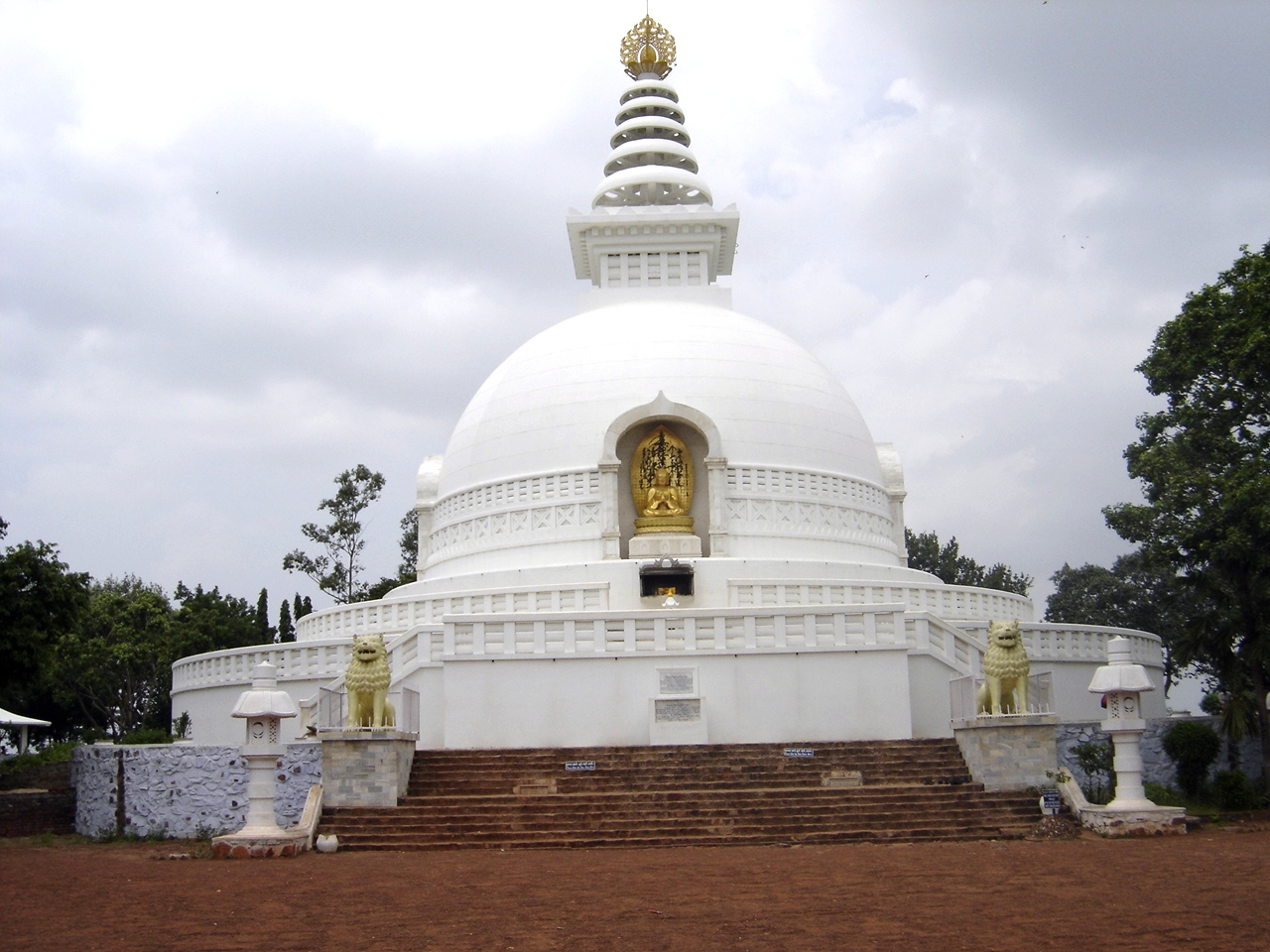 Vishwa Shanti Stupa (World Peace Pagoda) on Vulture Peak, Rajgir, Bihar, India